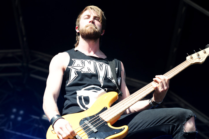 Paramore @ Steel Blue Oval (1/3/2010)